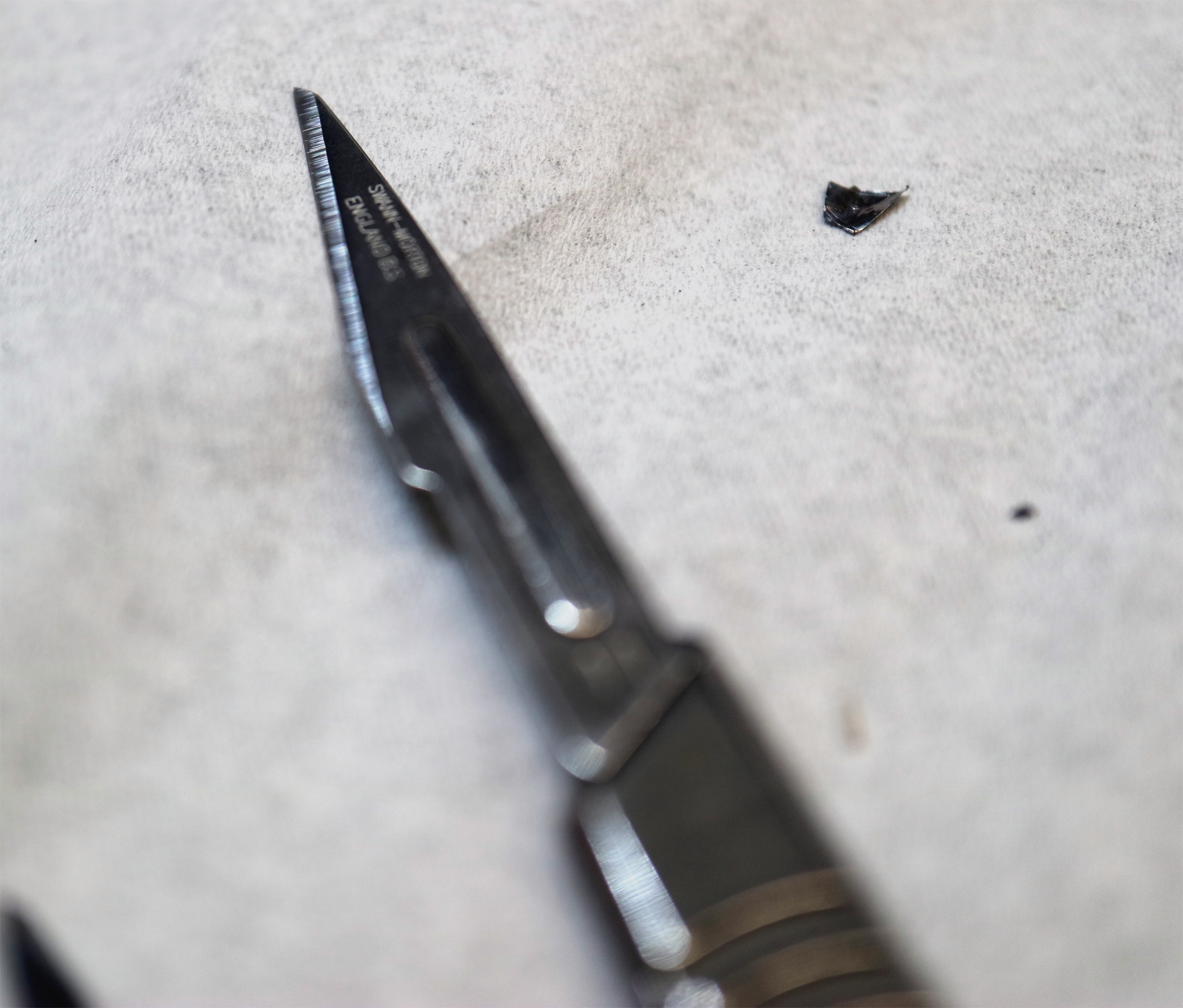 Steel scalpel blade, focus on the tip with shallow depth of field. Manufactured by Swann Morton.